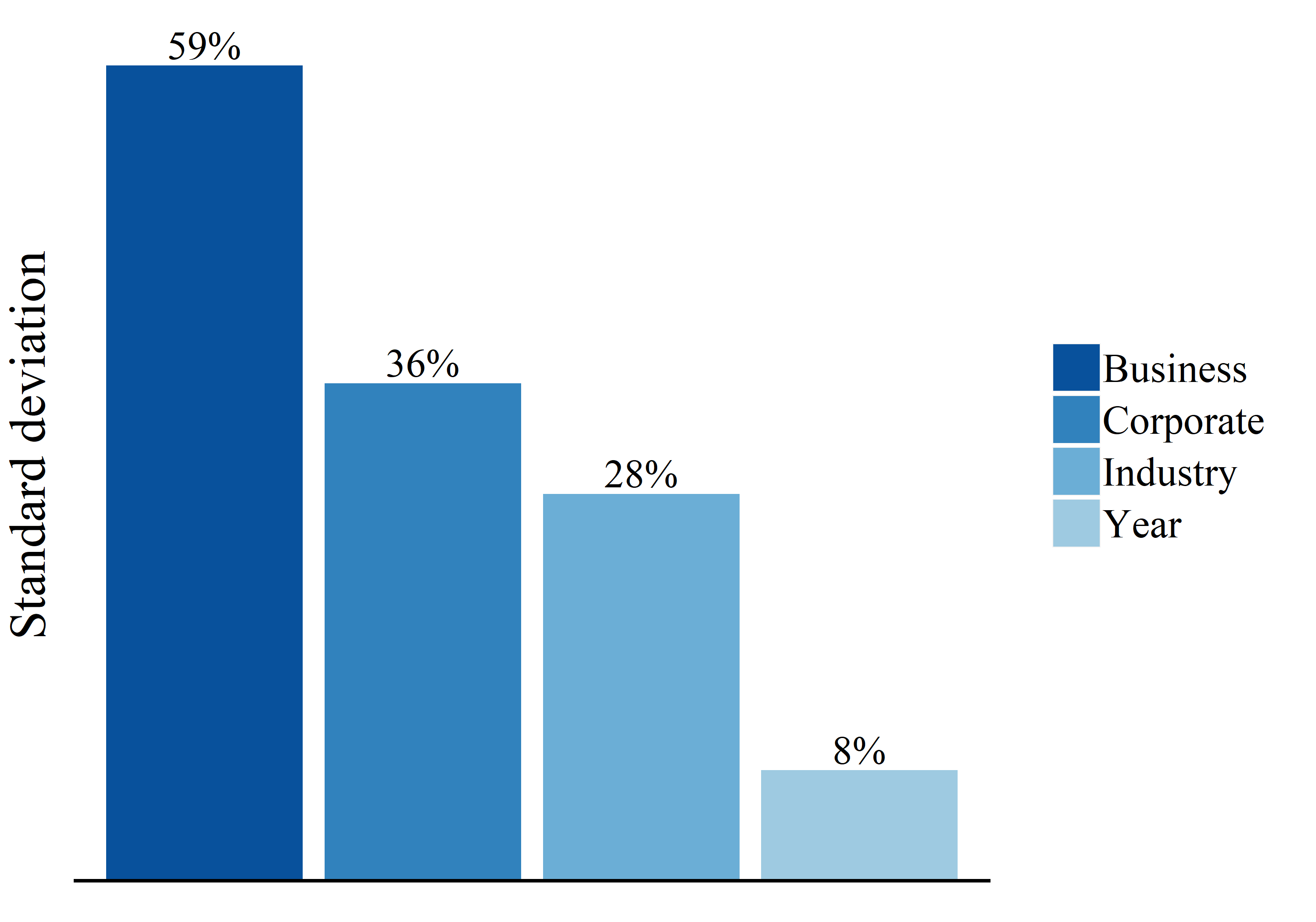 copyright: Amirhossein Zohrehvand